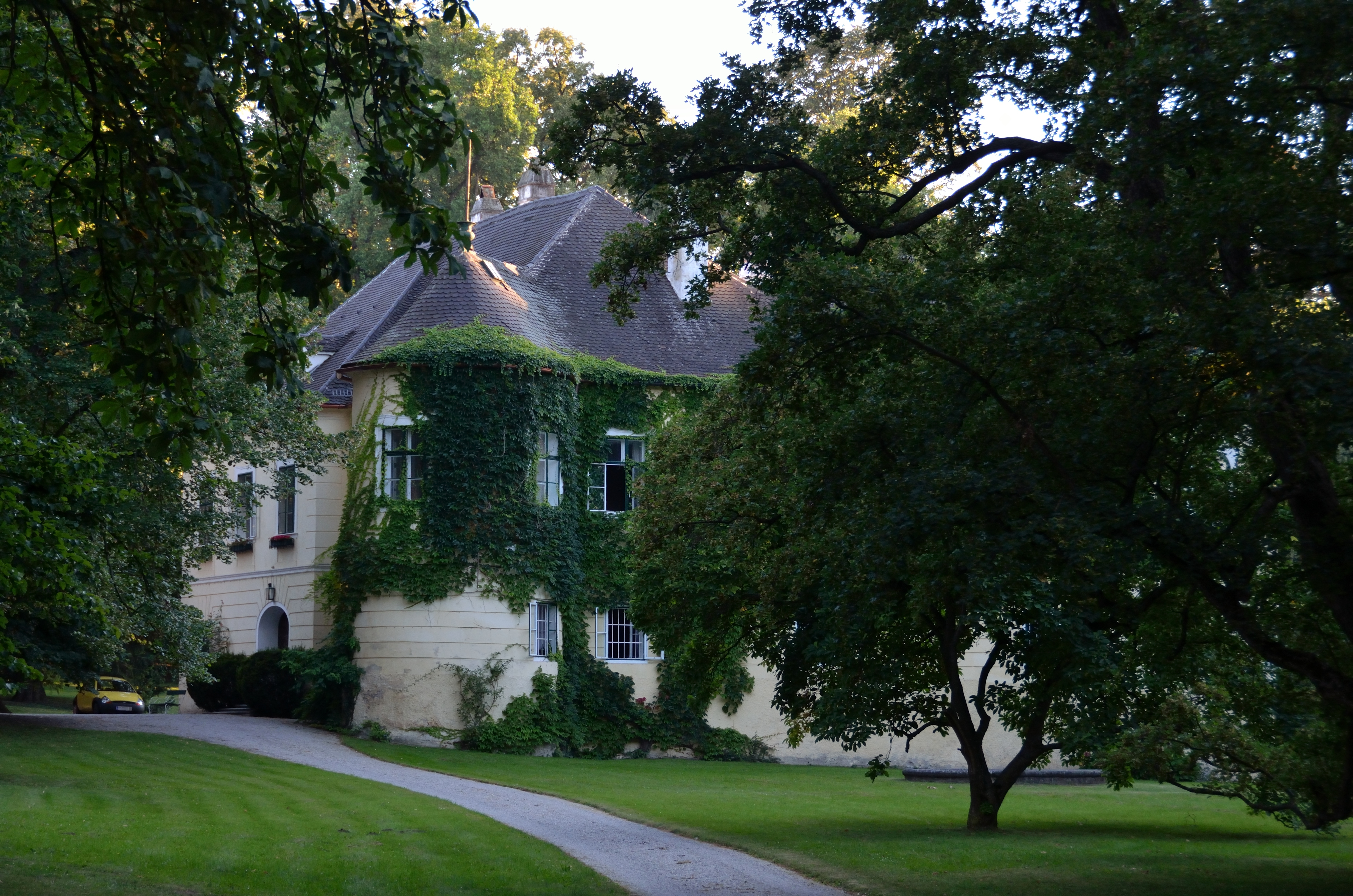 The palace in Jeutendorf, municipality of Böheimkirchen, Lower Austria, is protected as a cultural heritage monument.